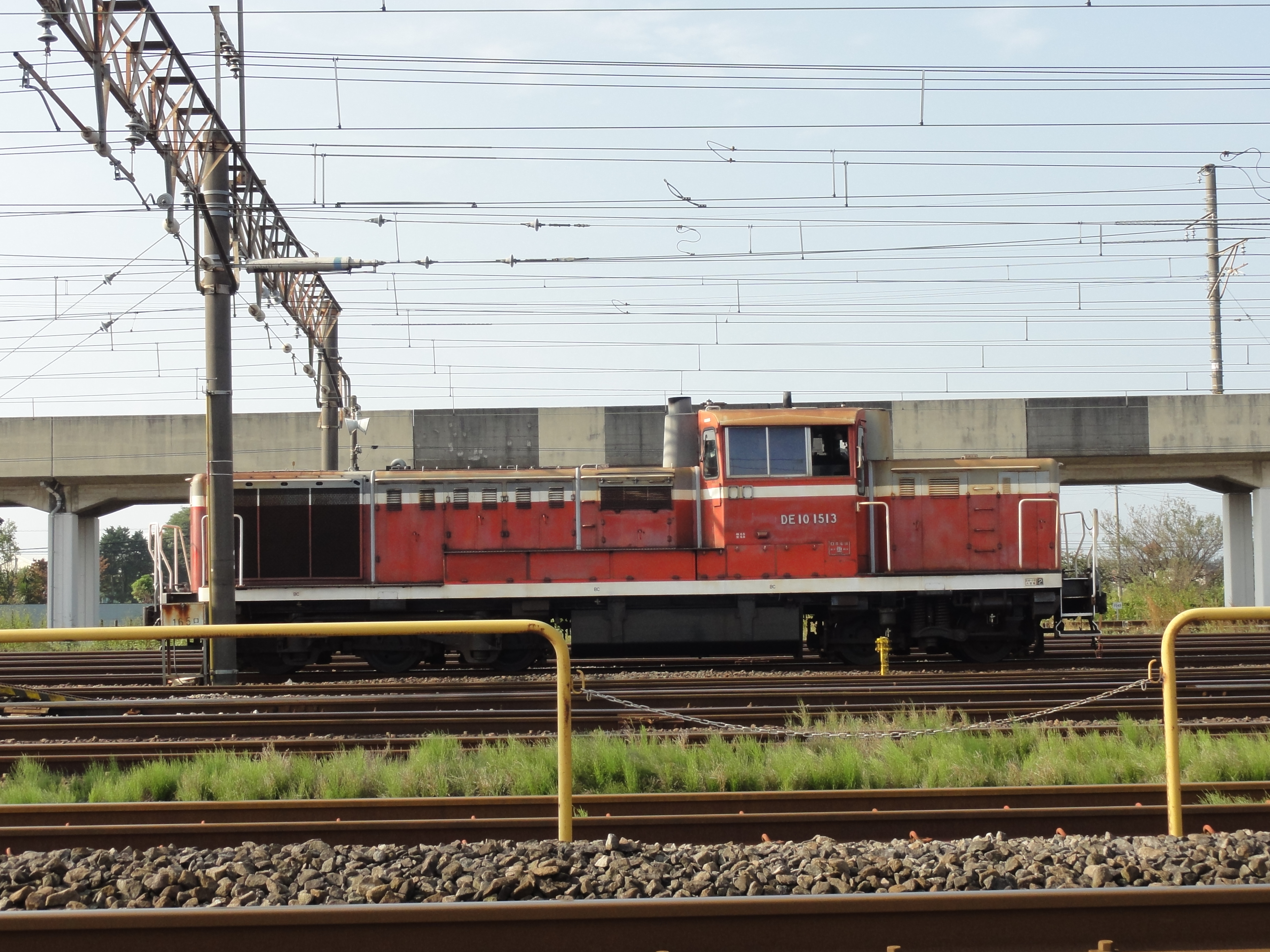 JR Freight Class DE10-1500 diesel locomotive DE10 1513 at Kumagaya Freight Terminal in Saitama Prefecture, Japan